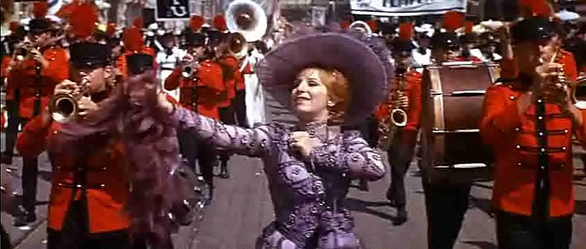 Screenshot of Barbra Streisand from the trailer for the film Hello, Dolly! (film)